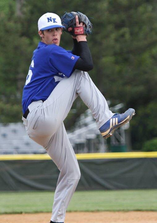 Picture of my son pitching.